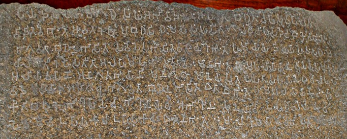 Bhabruh inscription